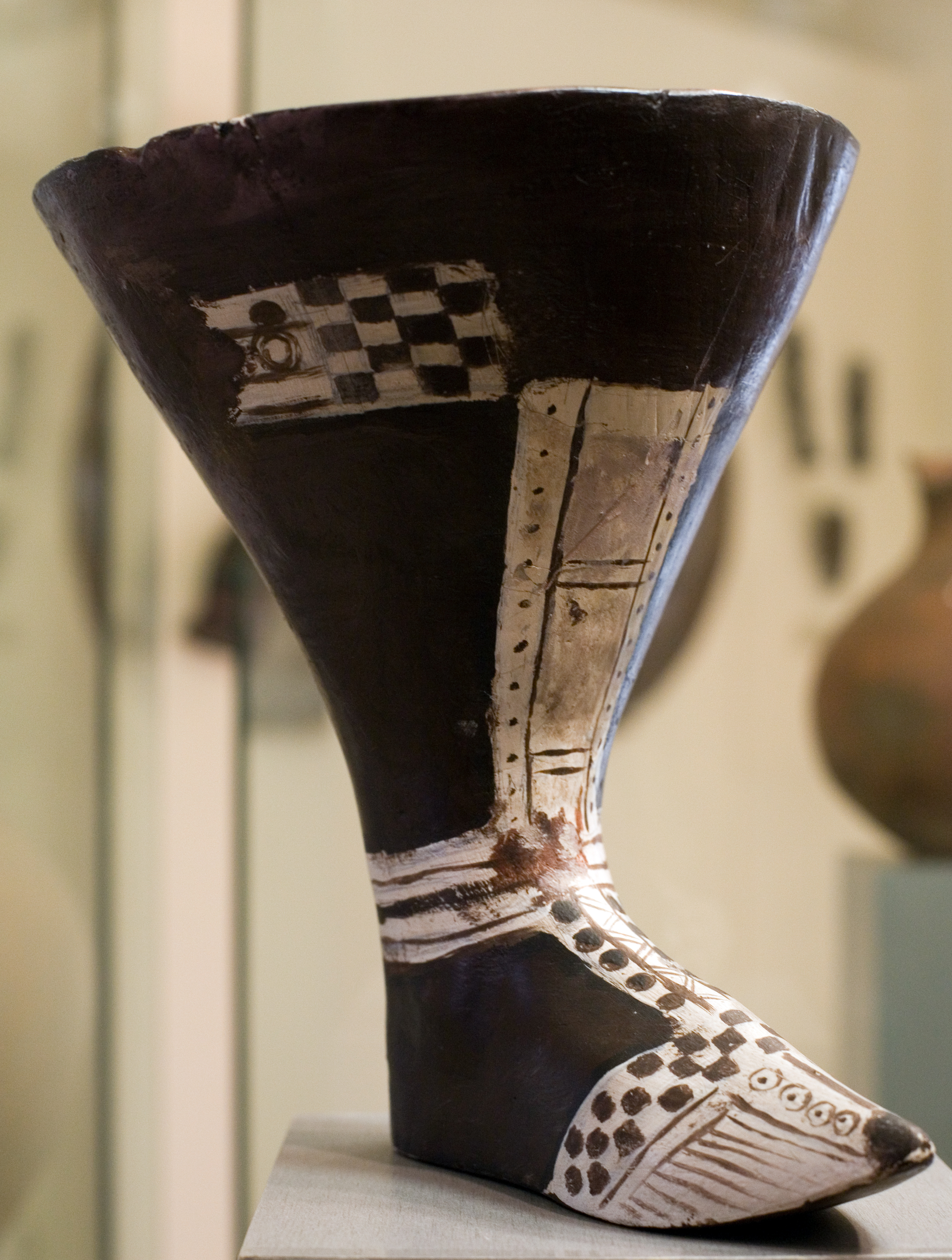 Urartian pottery